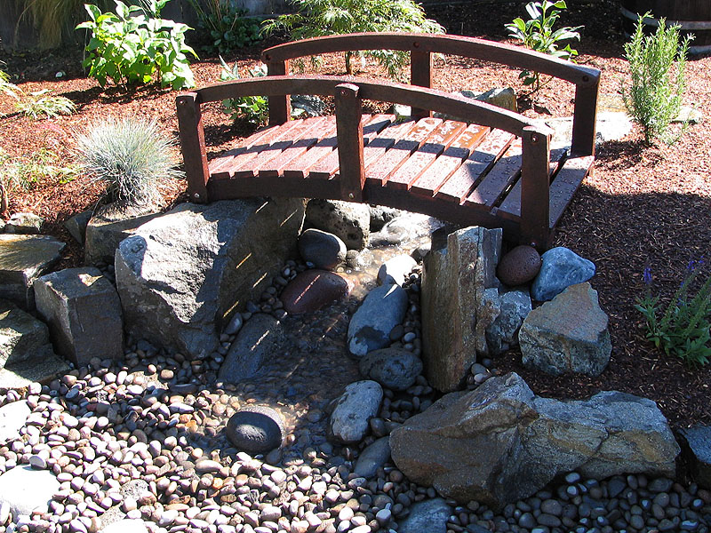 Photo by M. D. Vaden of Oregon. Small pondless water feature design in Jacksonville, Oregon. Image first uploaded for Water Feature article.